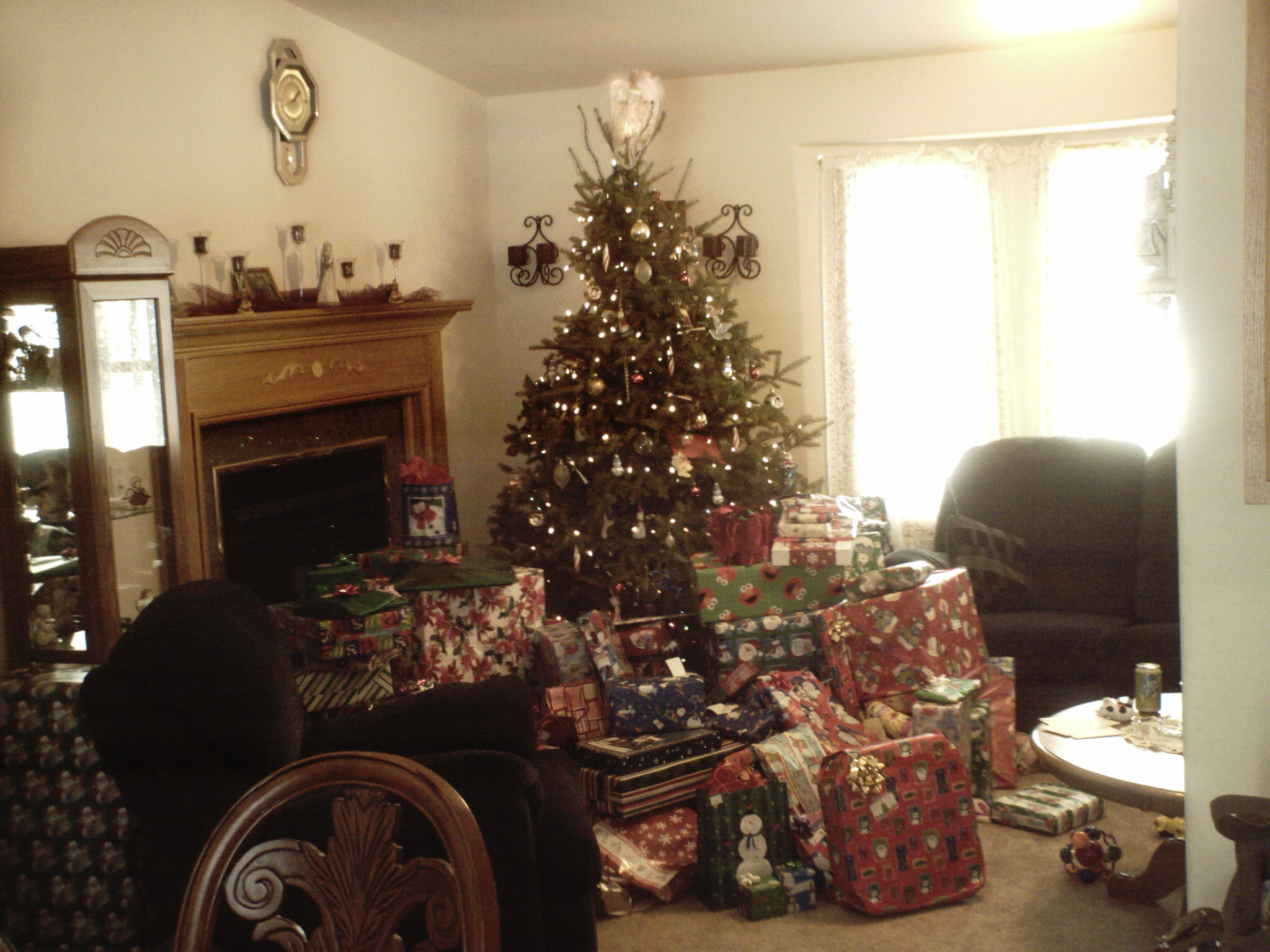 Christmas Tree with Lots of Presents Picture 2 of 2